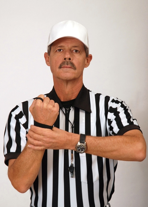 Joseph W. Underwood - referee